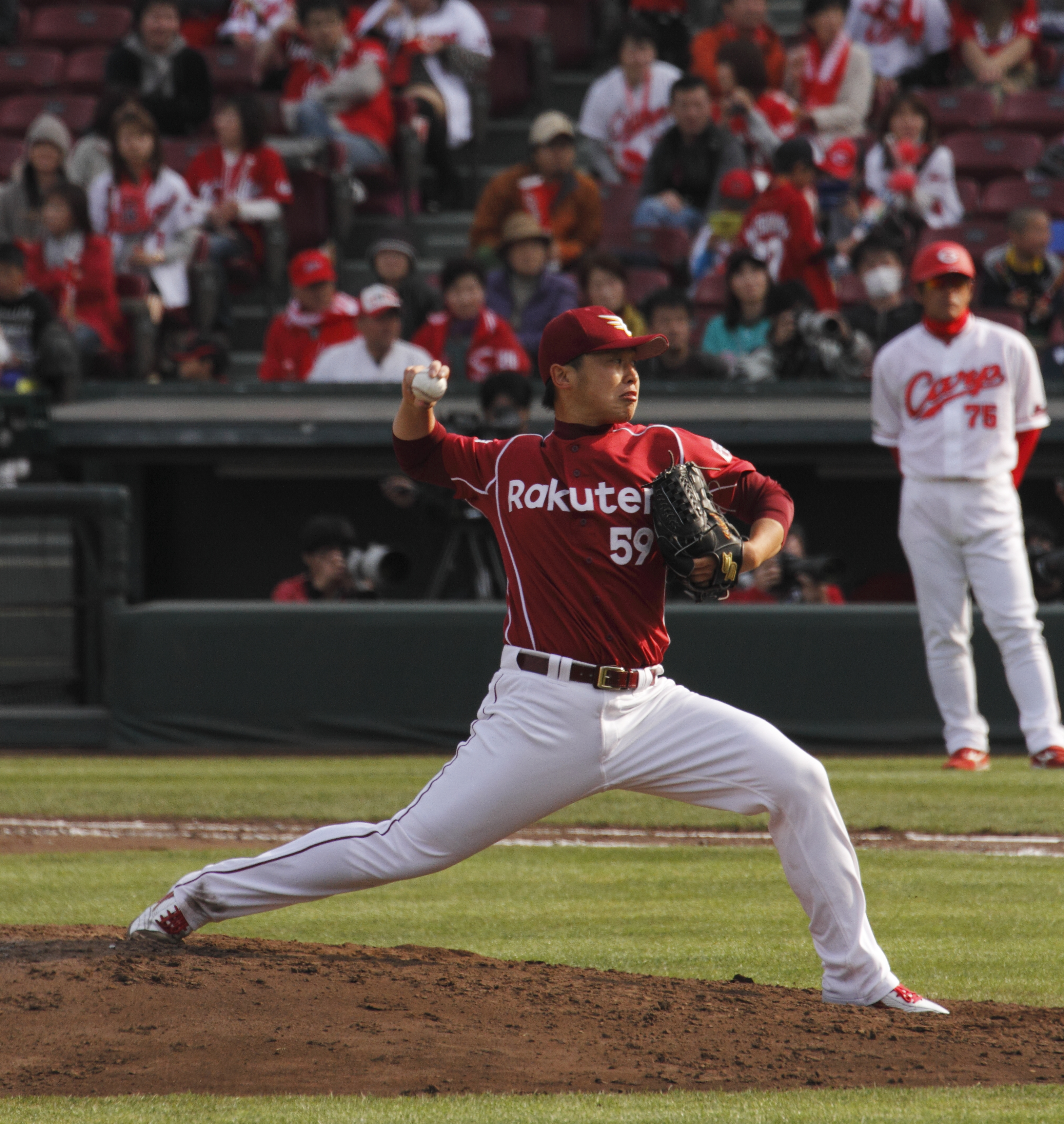 Yasunori Kikuchi, pitcher of the Tohoku Rakuten Golden Eagles, at MAZDA Zoom-Zoom Stadium Hiroshima.